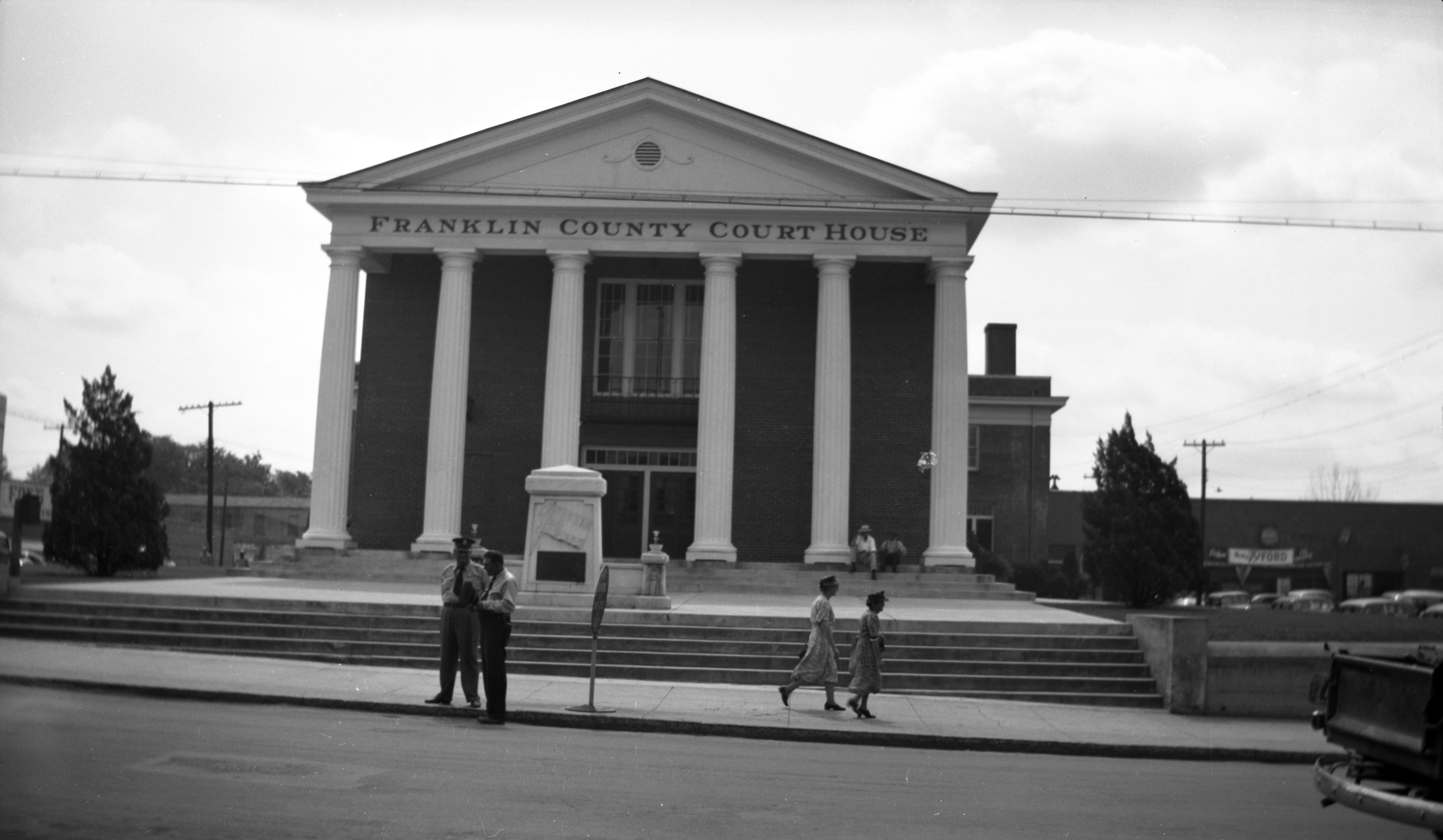 Franklin County Courthouse, Louisburg, NC, 23 July 1948, photo by Clarence Griffin, General Negative Collection, State Archives of North Carolina.